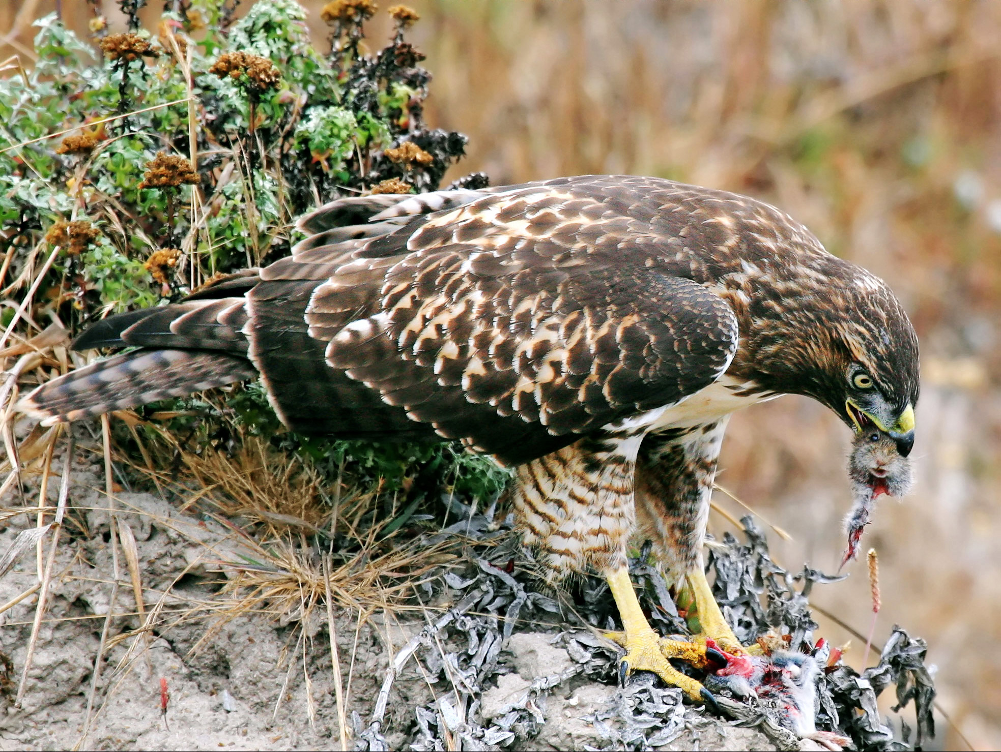 A hawk (juvenile red-tailed hawk — Buteo jamaicensis) eating its prey (California meadow vole — Microtis californicus).[1].